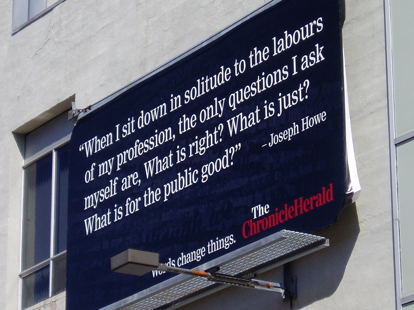 billboard ad for the Chronicle Herald (Halifax NS, April 1 2007)